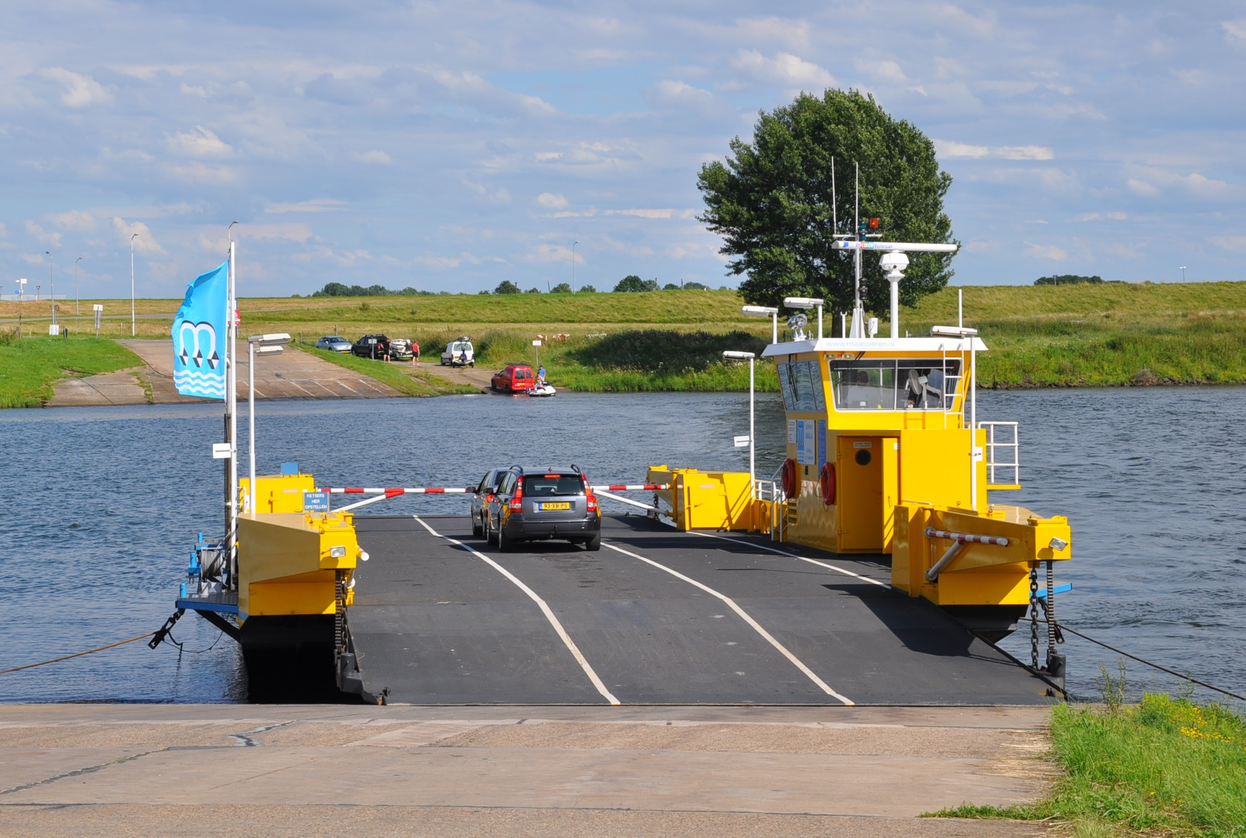 Ferry over the Meuse river at Alem (municipality Maasdriel, Gelderland province, Netherlands).